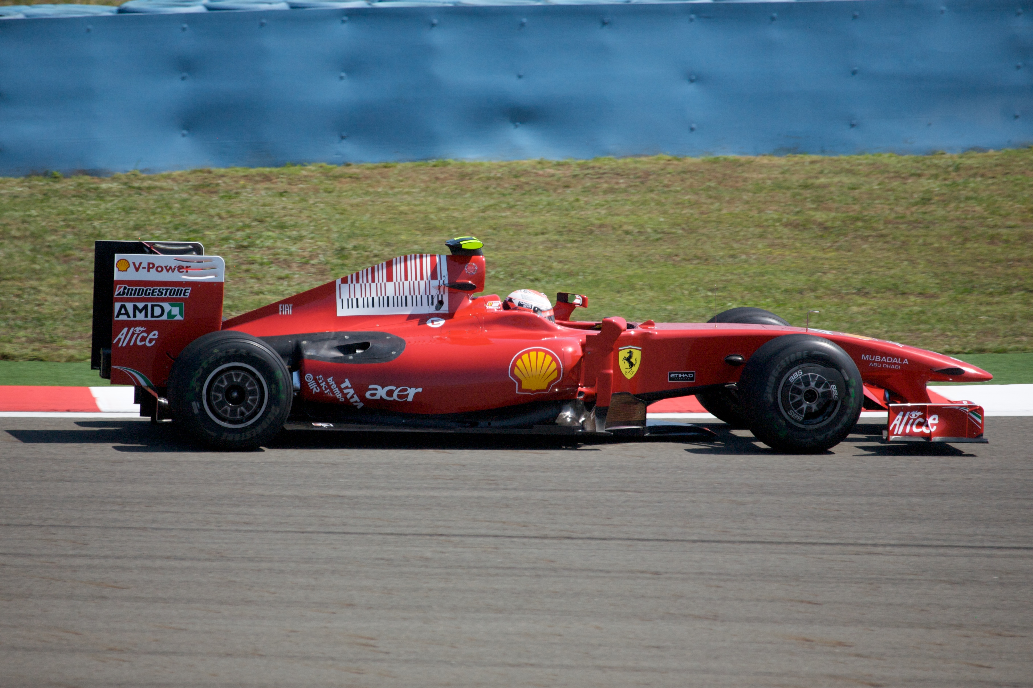 Kimi Räikkönen driving for Scuderia Ferrari at the 2009 Turkish Grand Prix.